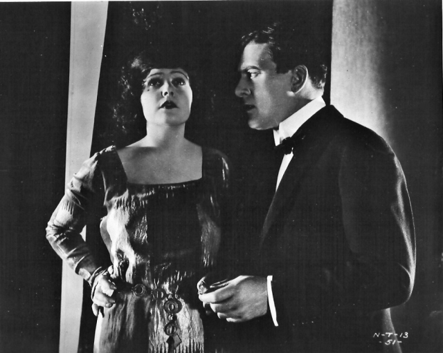 Still with Norma Talmadge and Thomas Meighan from the film The Probation Wife (1919).